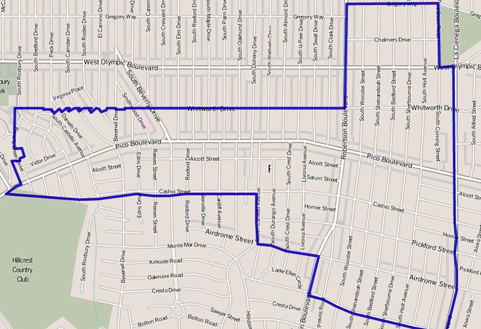 Map of Pico-Robertson, California, as delineated by the Los Angeles Times Other information Boundary map as drawn by the Los Angeles Times on a CC-by-SA background. Note at bottom right of map on the L.A. Times website noted above says "CC-by-SA" (which gives permission to use the map). There is a link there to which explains the meaning thereof. The base map is credited to The Times spells all this out at